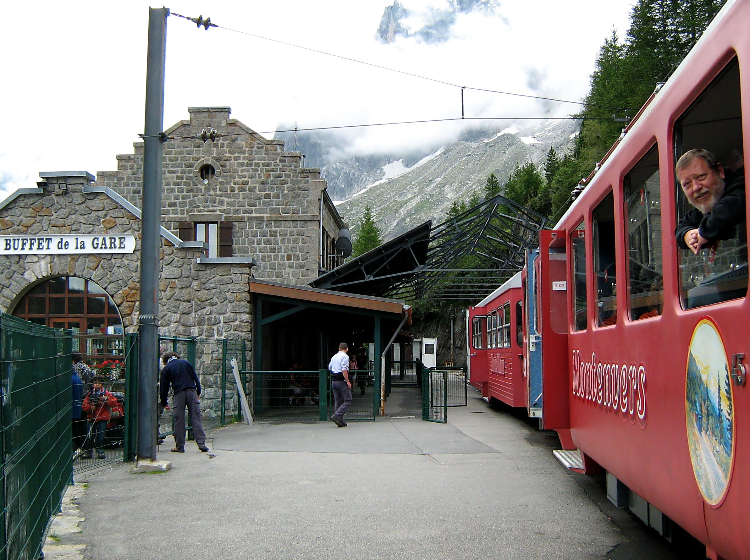 Train on the Chamonix - Montenvers Line at the station in Montenvers. August 2007.